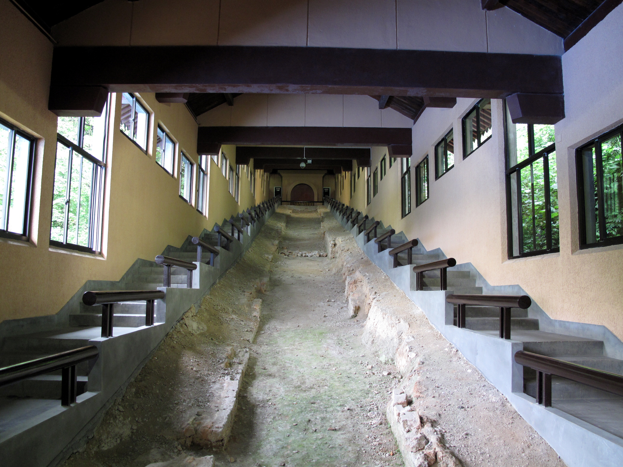 Dragon kiln of Jiaotanxia, now Southern Song Imperial Kiln Museum, Hangzhou This the furnace where the main firing was accomplished. Kilns of this type are also called climbing, or snake, kilns. In Japan they are called anagama (cave) kilns. The unfired pots were stacked in saggers before firing. The kiln is about 40m (131 ft) long by 2m (6.56 ft) wide. It was originally covered, like all kilns, to retain the heat.